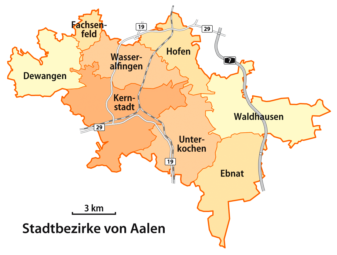 Map of the boroughs of Aalen, Germany